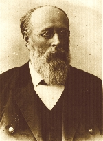 Portrait of Vasily Zinger (1836-1907), Russian mathematician and botanist